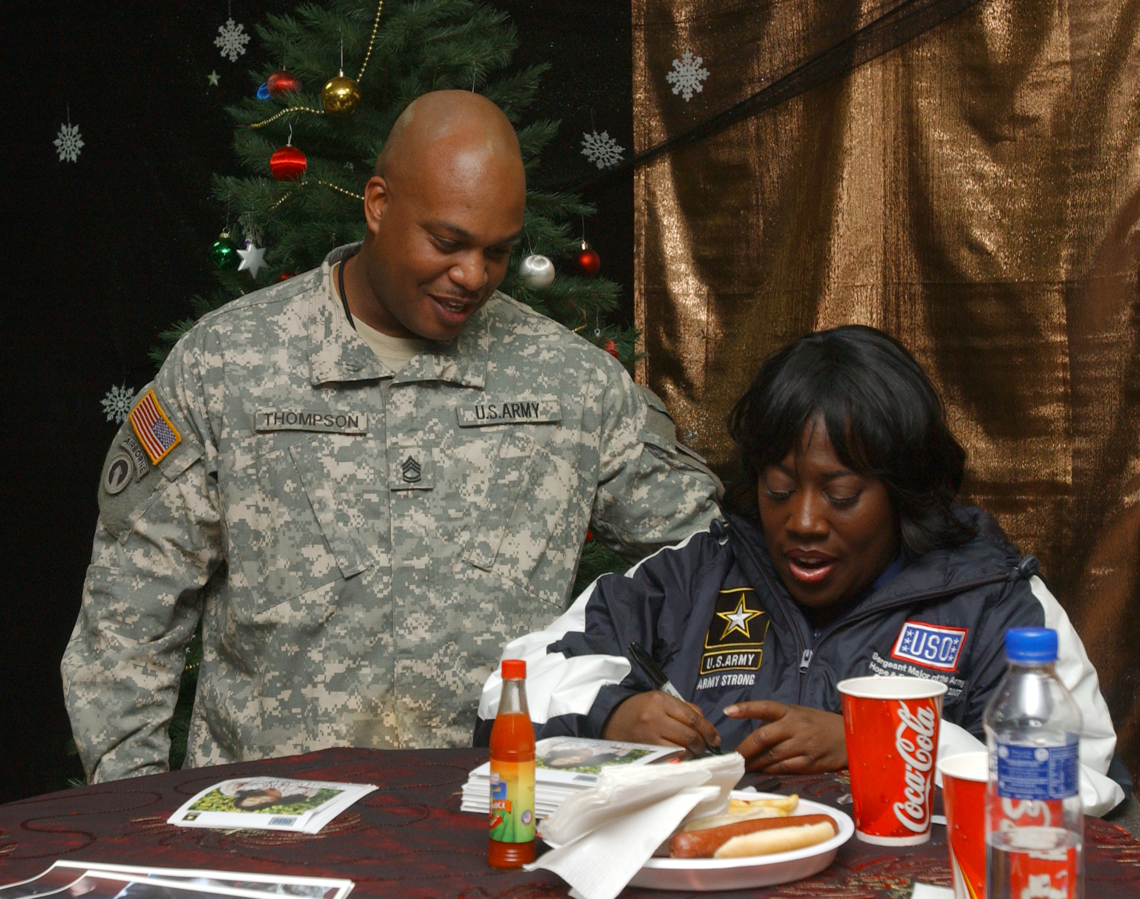 Comedian Sheryl Underwood hangs out with a Soldier at Camp Arifjan, Kuwait, Dec. 12. A host of stars and entertainers are traveling as a part of the Sgt. Maj. of the Army's Hope and Freedom tour to entertain deployed troops.